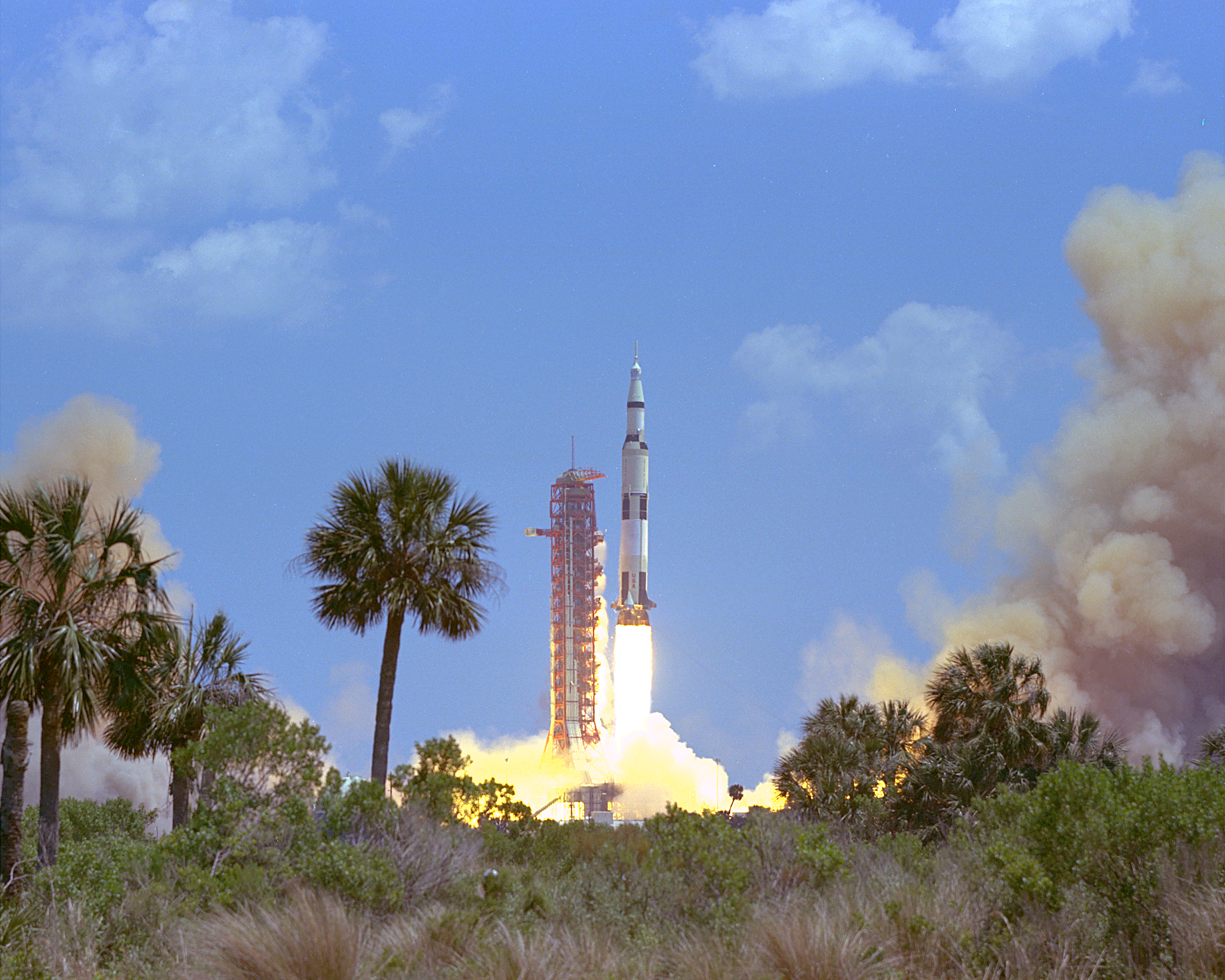 The Apollo 16 Saturn V space vehicle carrying astronauts John W. Young, Thomas K. Mattingly II, and Charles M. Duke, Jr., lifted off to the Moon at 12:54 p.m. EST April 16, 1972, from the Kennedy Space Center Launch Complex 39A.